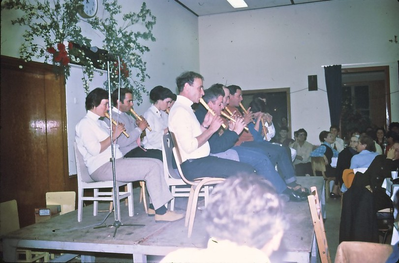 50th birthday Kibbutz Gan Shmuel - Orchestra recorders